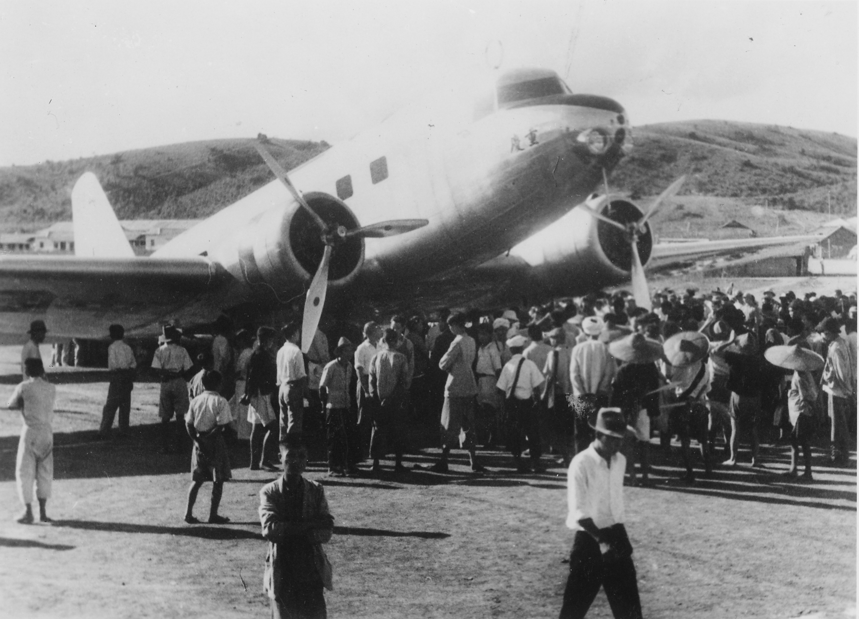 DC-2 passenger aircraft at Loiwing (Leiyun) airfield, Yunnan Province, China 中文（中国大陆）: 在雷允机场的一架DC-2